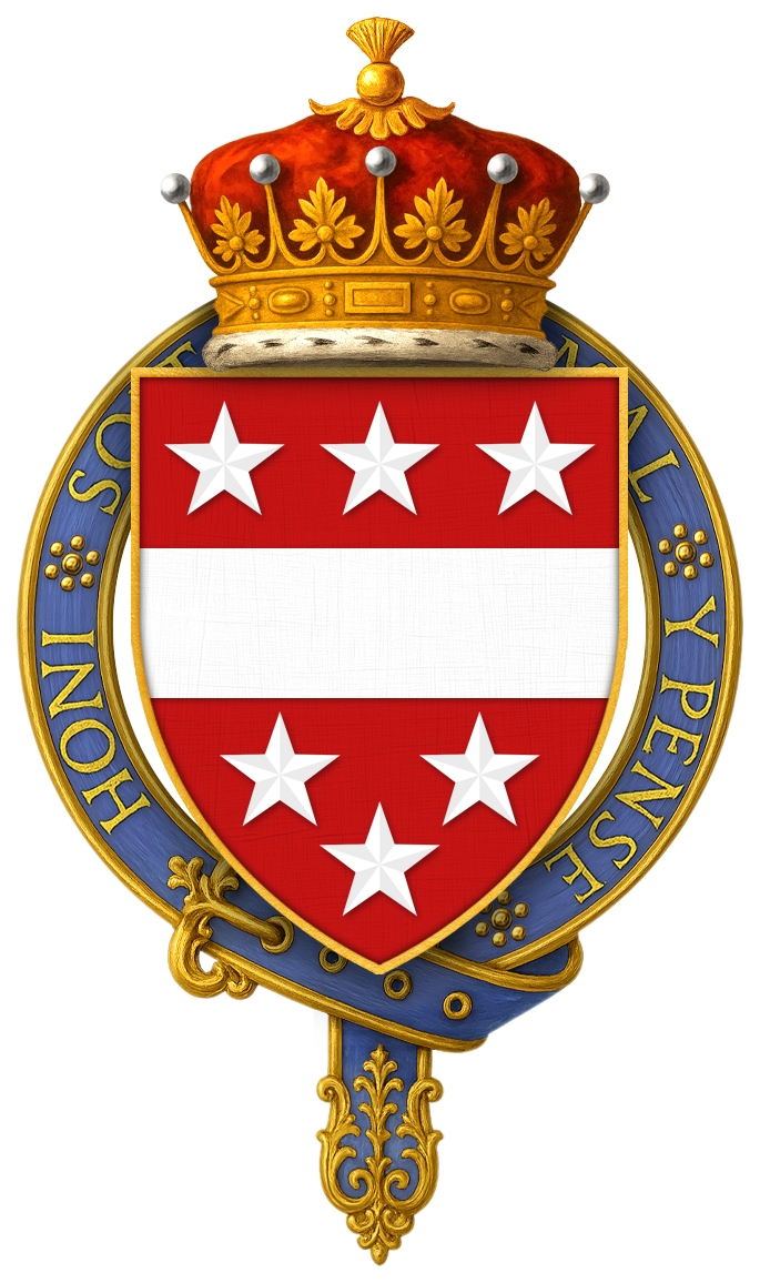 Shield of arms of George Ashburnham, 3rd Earl of Ashburnham, KG, GCH, FSA